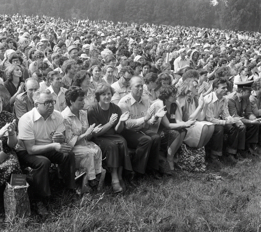 “All-Union Pushkin Poetry Festival”. Spectators on a Mikhailovskoe meadow (Pskov Oblast) on opening day of All-Union Pushkin Poetry Festival.